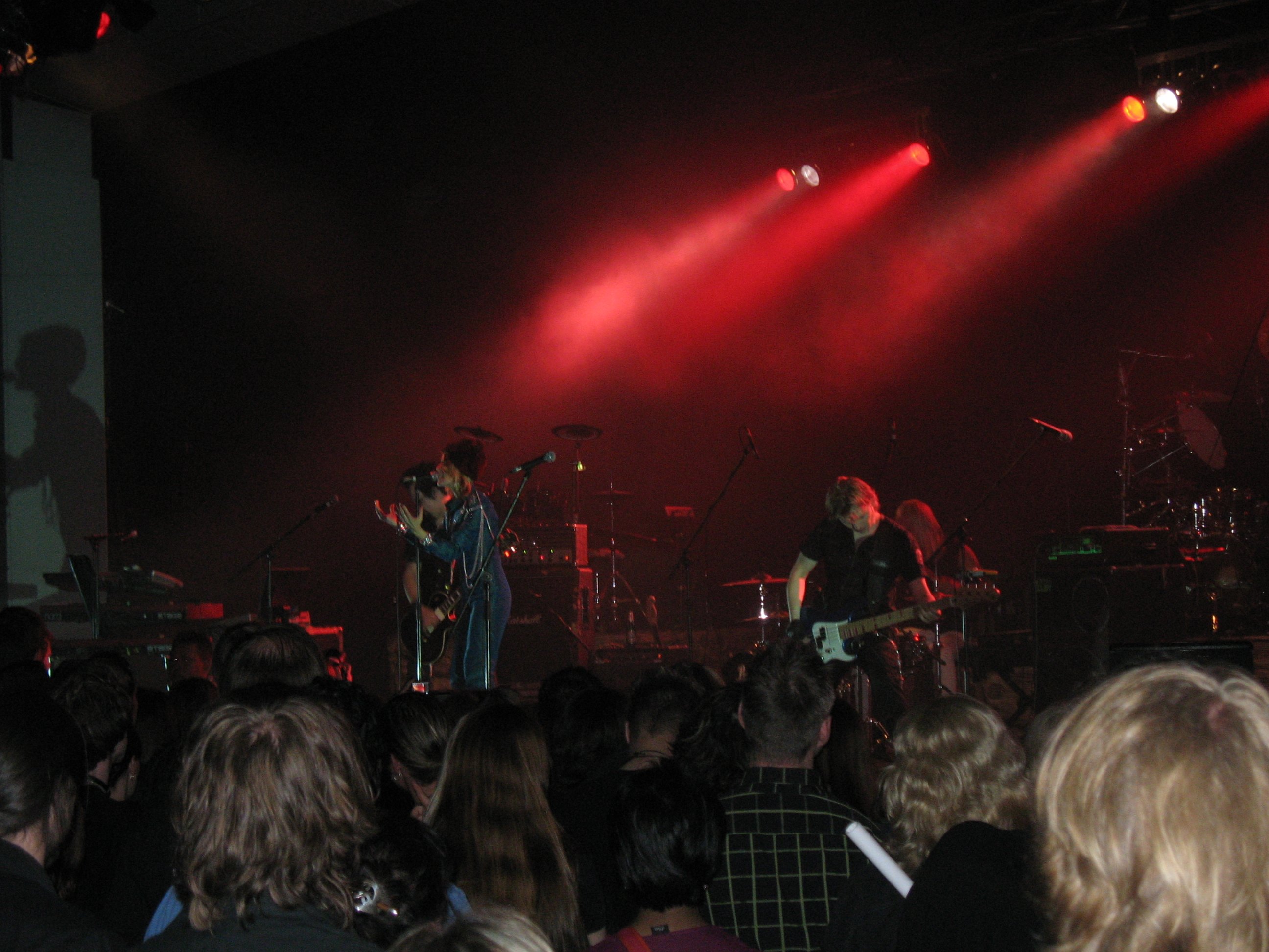 Passionworks supporting Tarja Storm In Europe Tour 2008 line-up in May-June, 2008